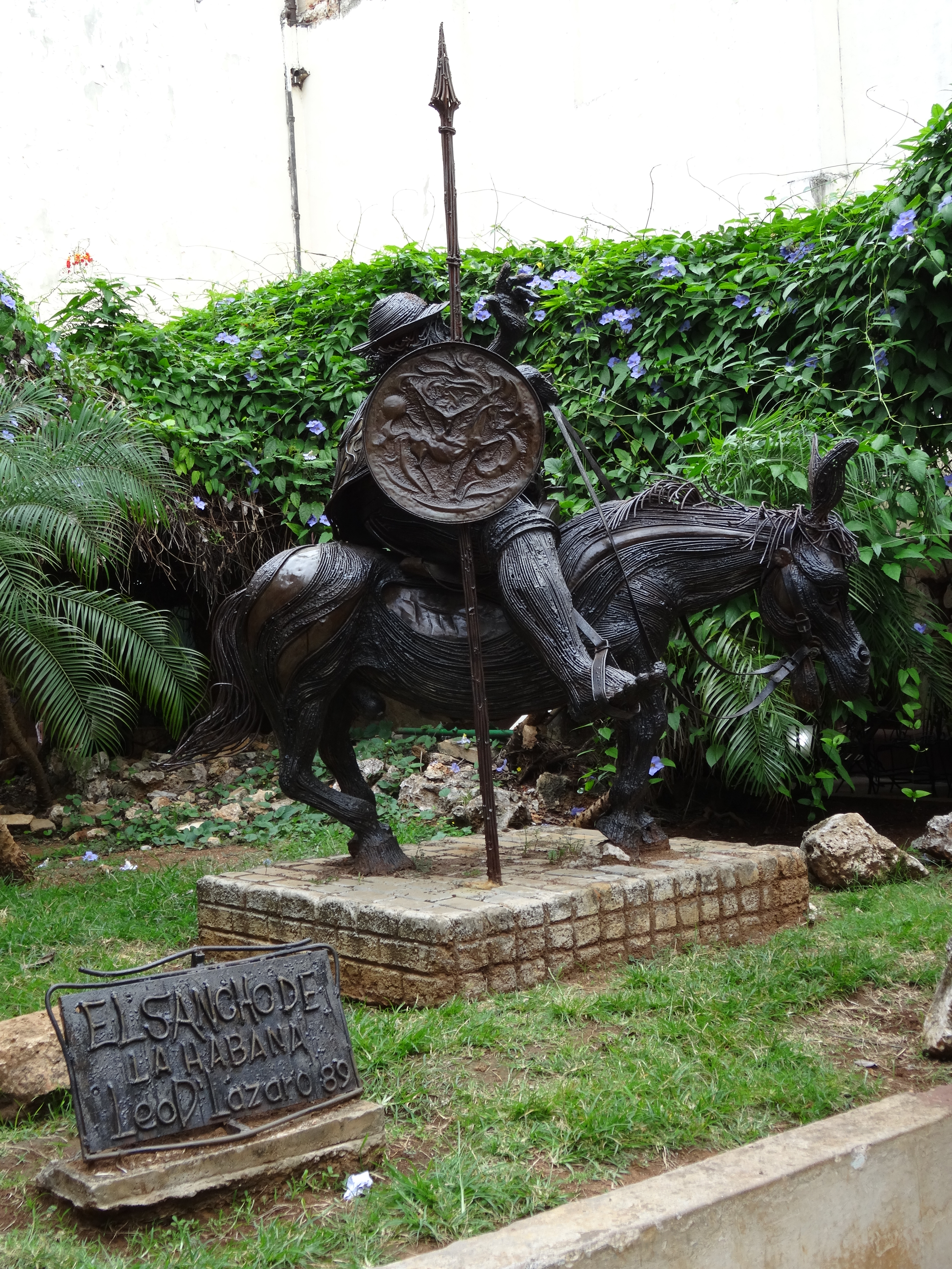 Cuba Havana Sancho Pansa sculpture